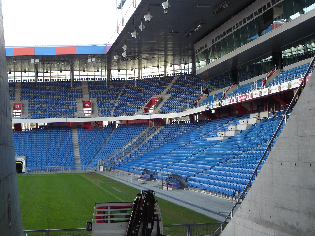 Inner view of the St. Jakob-Park (FC Basel stadium).